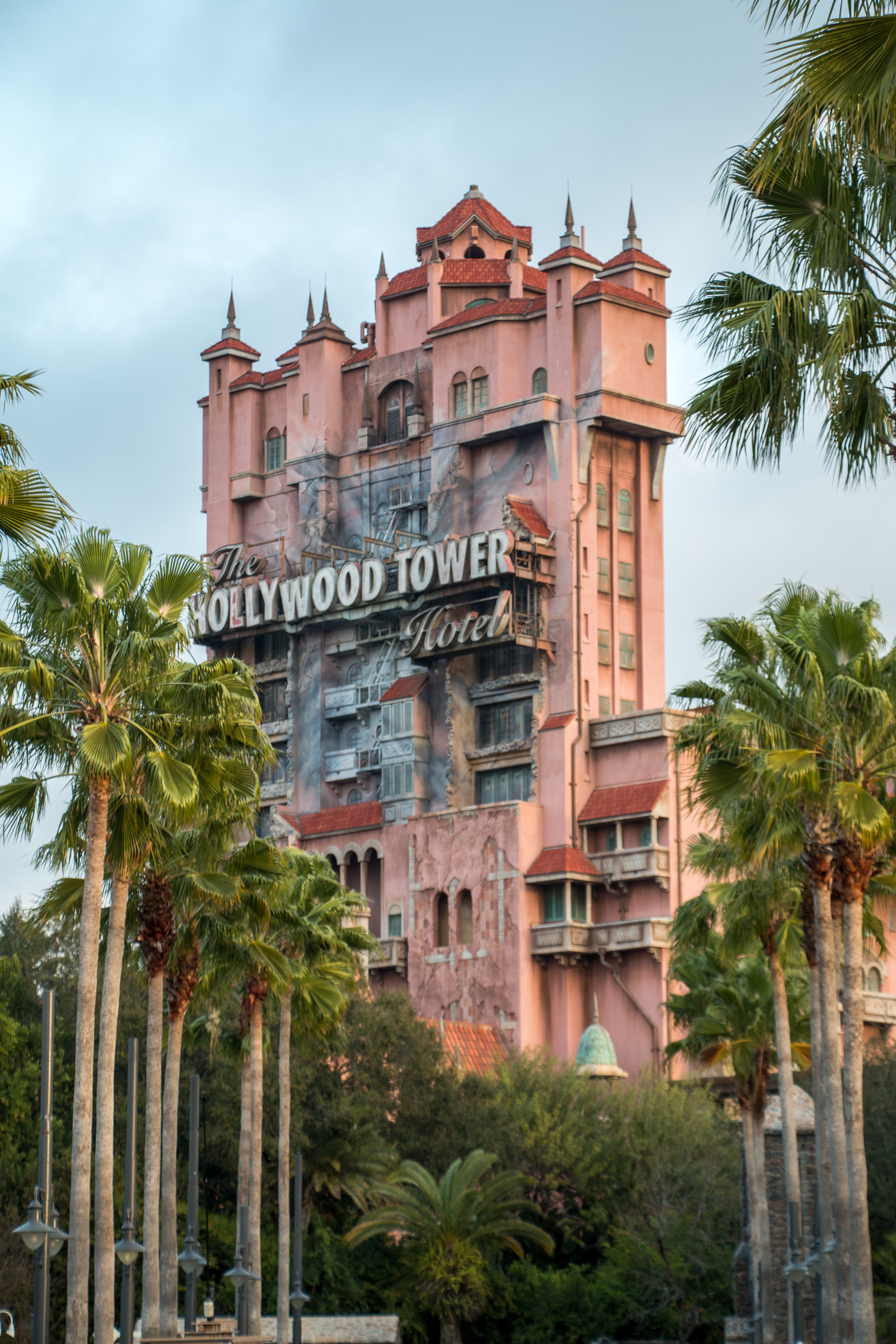 The Tower of Terror in Disney's Hollywood Studios.